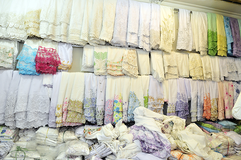 Cloak covering a woman's head dan body worn at prayer